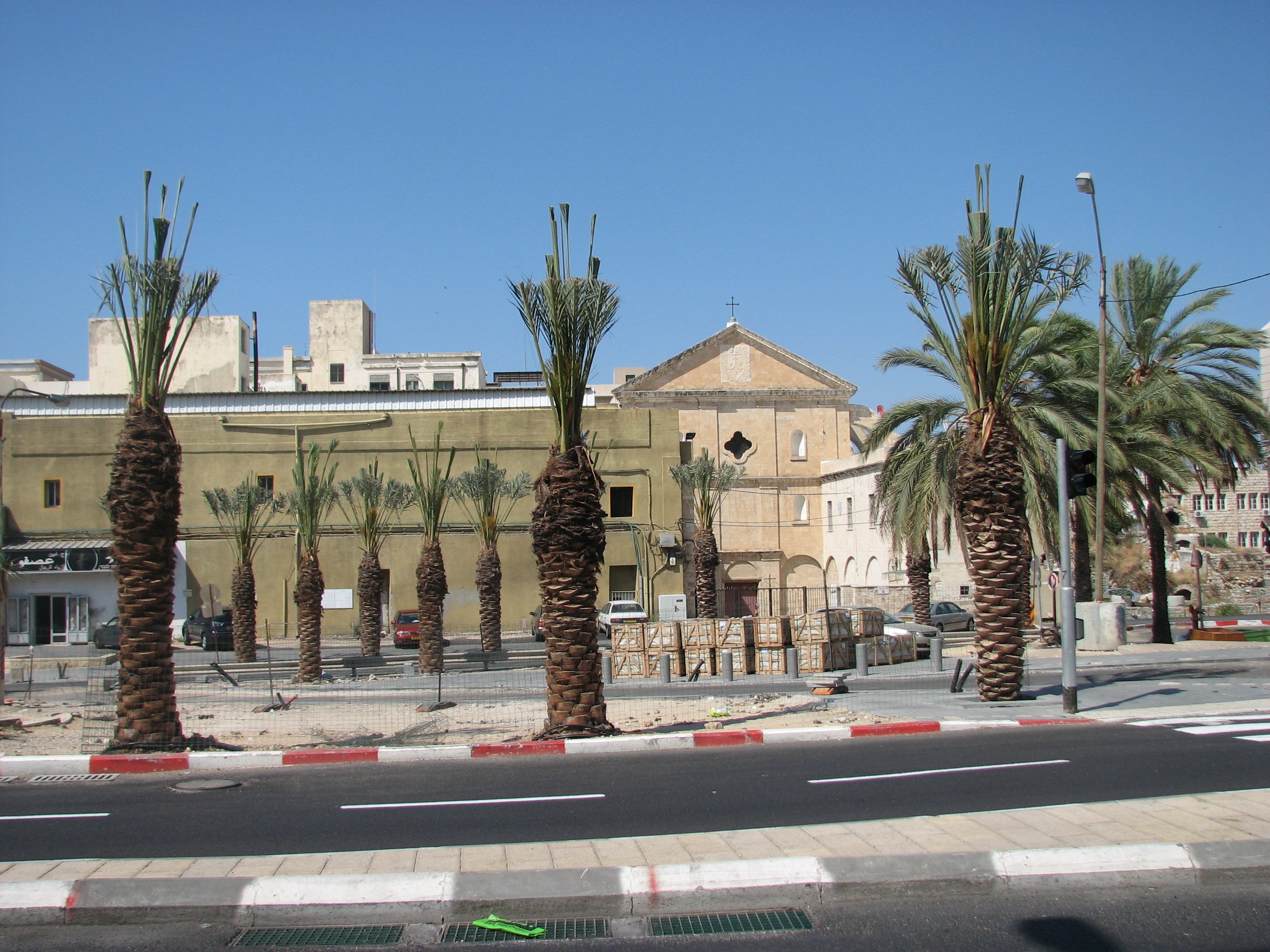 St. Elias Carmelite Church on the under-renovation Paris Square, HFA, with Palyam Avenue in the front.